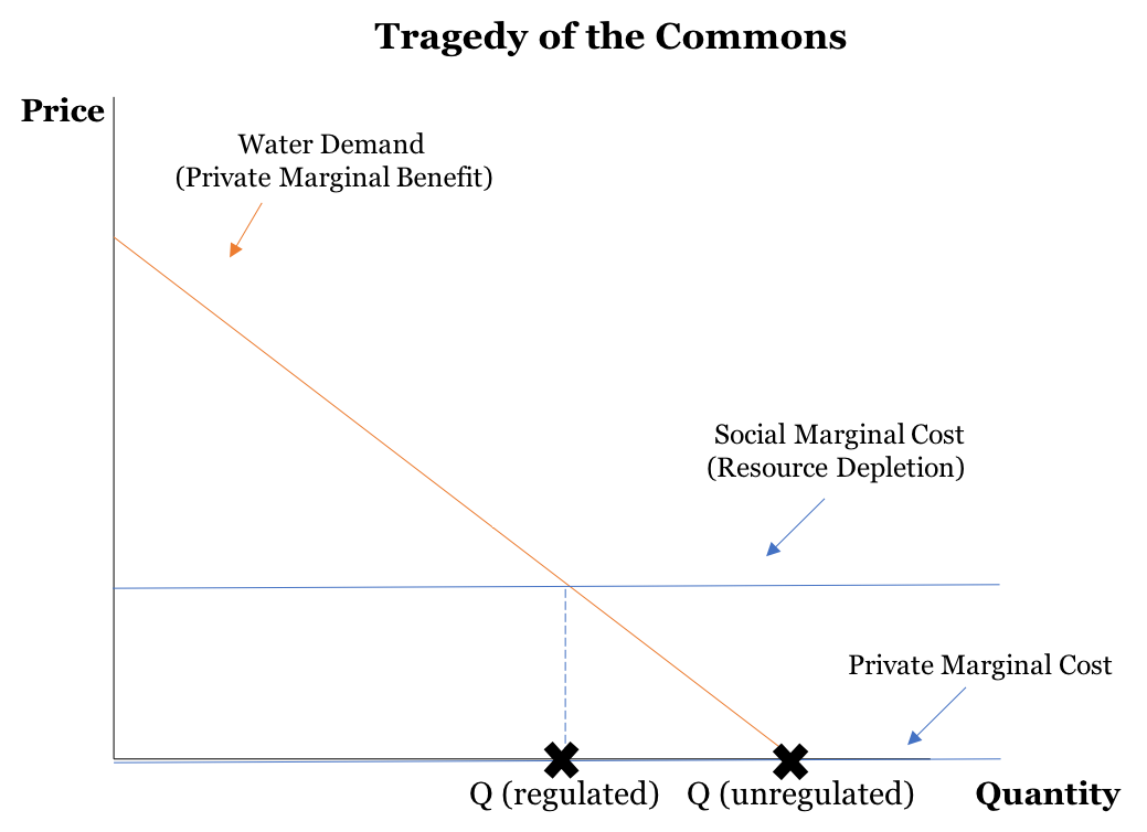 Overuse of common resources which in this case is open water bodies